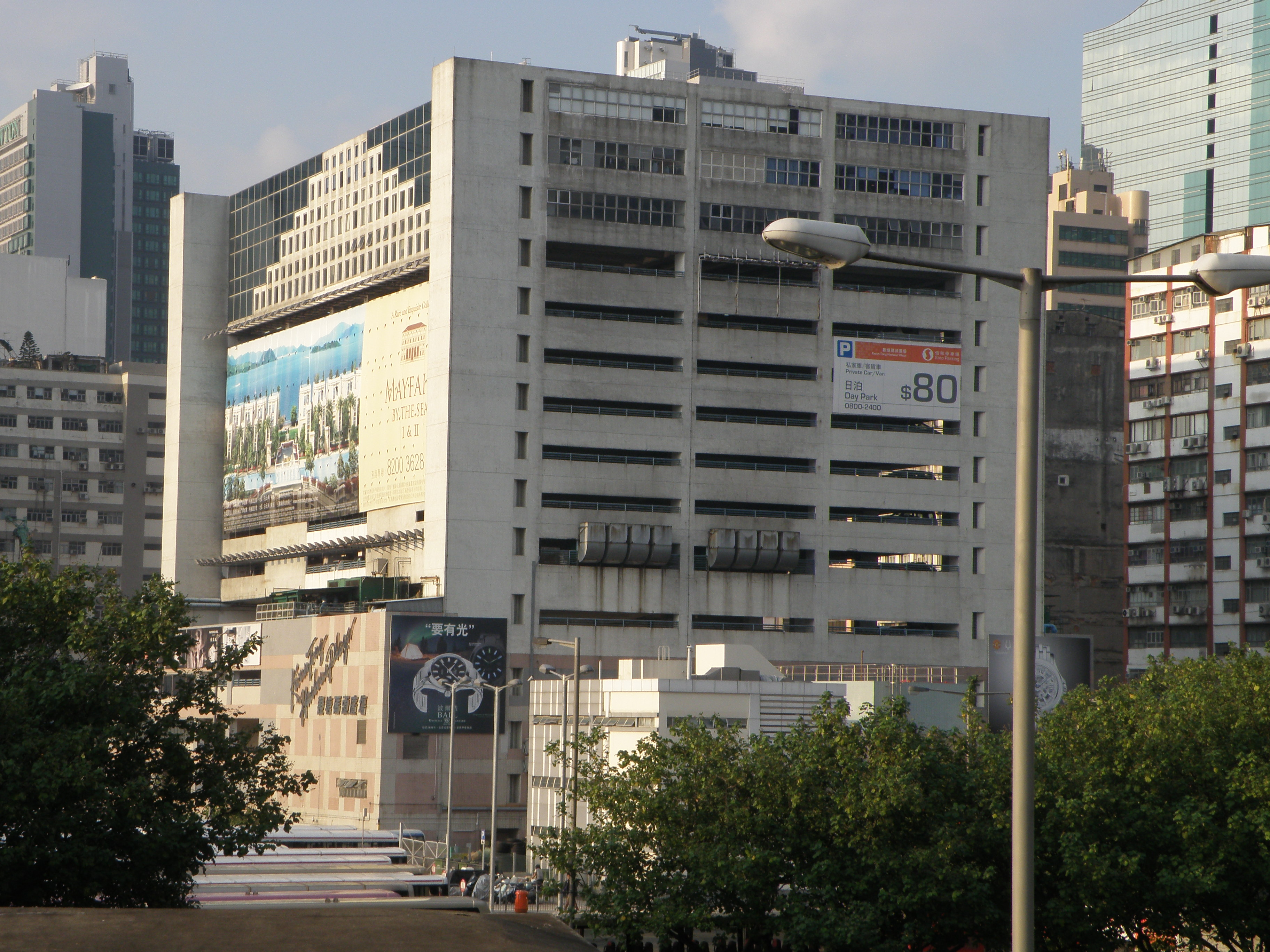 Kwun Tong Harbour Plaza in Kwun Tong, Hong Kong.